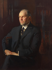 Former Speaker of the House Frederick Gillett.